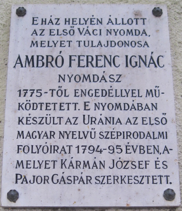 Ferenc Ignác Ambró commemorative plaque in Vác. Dr. Csányi László Boulevard No 22.